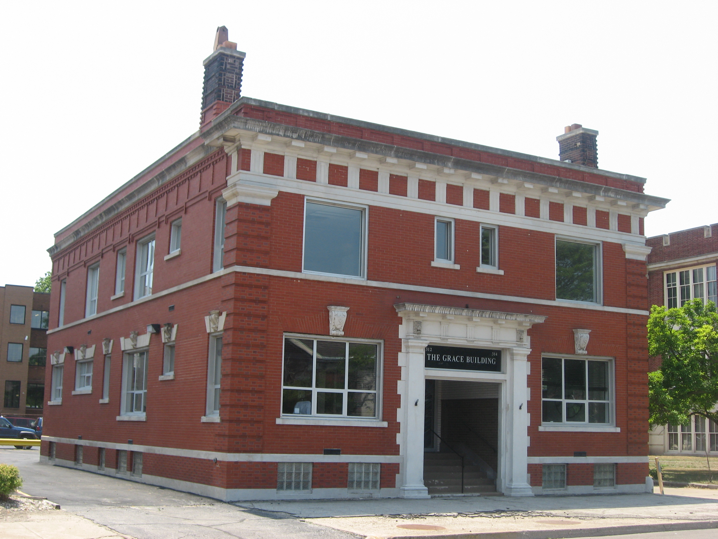 Front of the Summers-Longley House-Building, located at 312-314 W. Colfax Avenue in South Bend, Indiana, United States. Built in 1910, it is listed on the National Register of Historic Places.